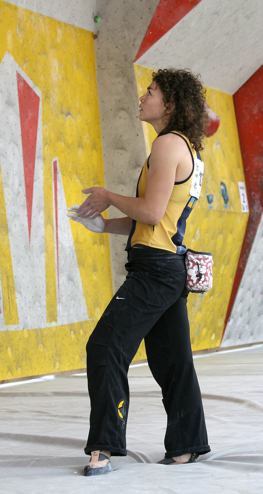 Olga Shalagina during the semi-finals at the IFSC Boulder Worldcup Vienna 2010.